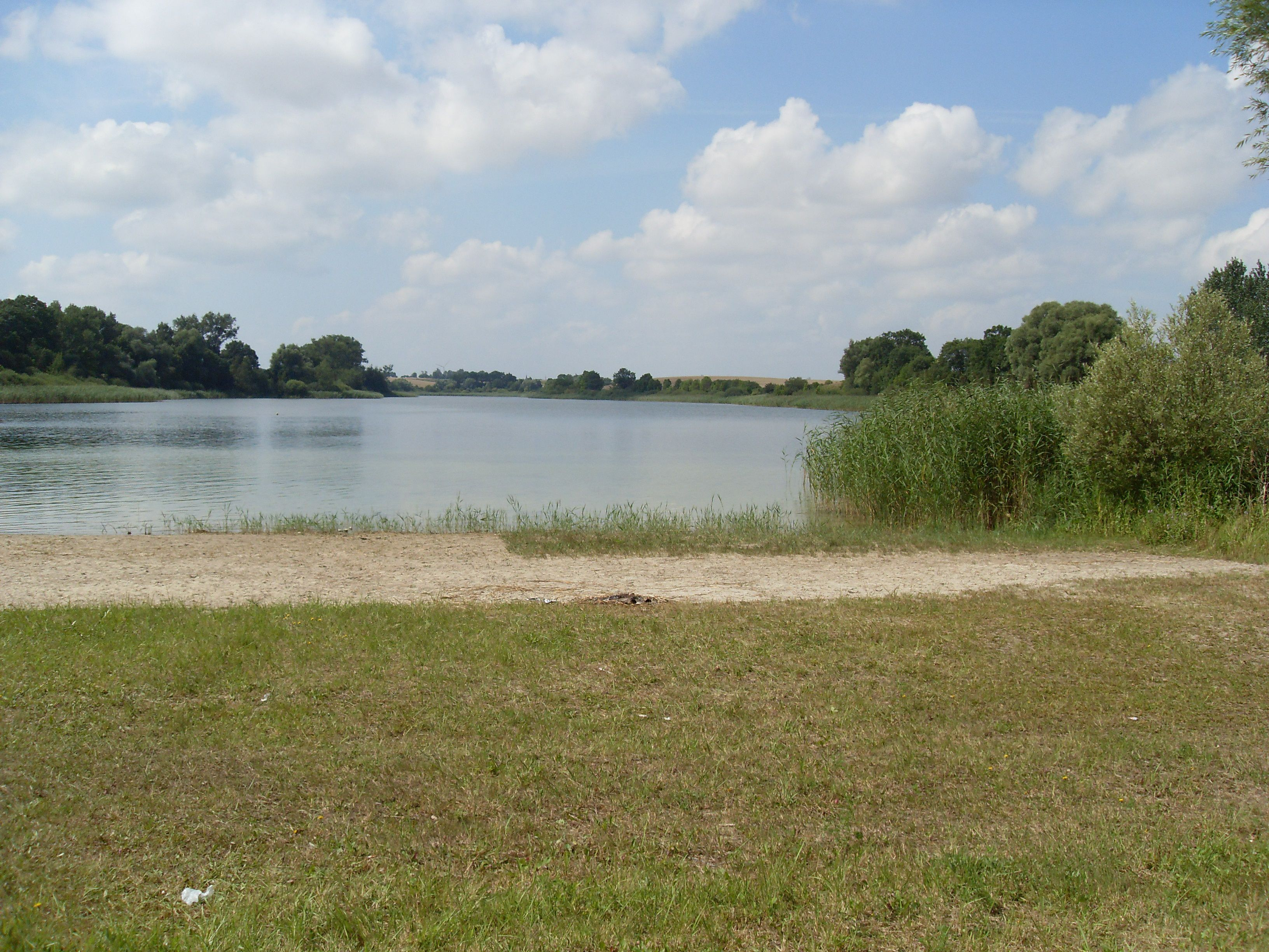 Lüzower See, close to the village Lützow in Brandenburg, Germany